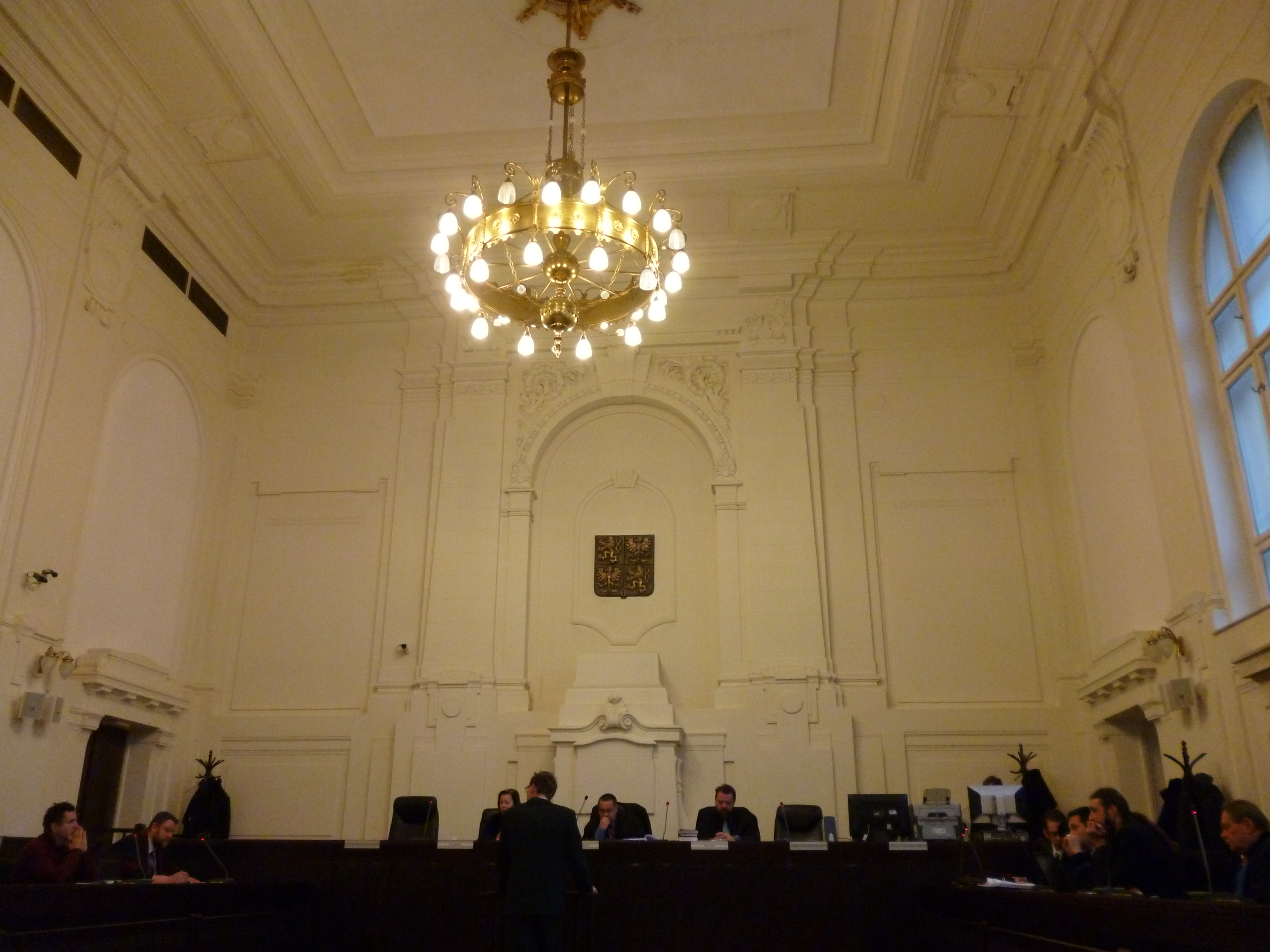 Randy Blythe at the Municipal Court in Prague on manslaughter trial